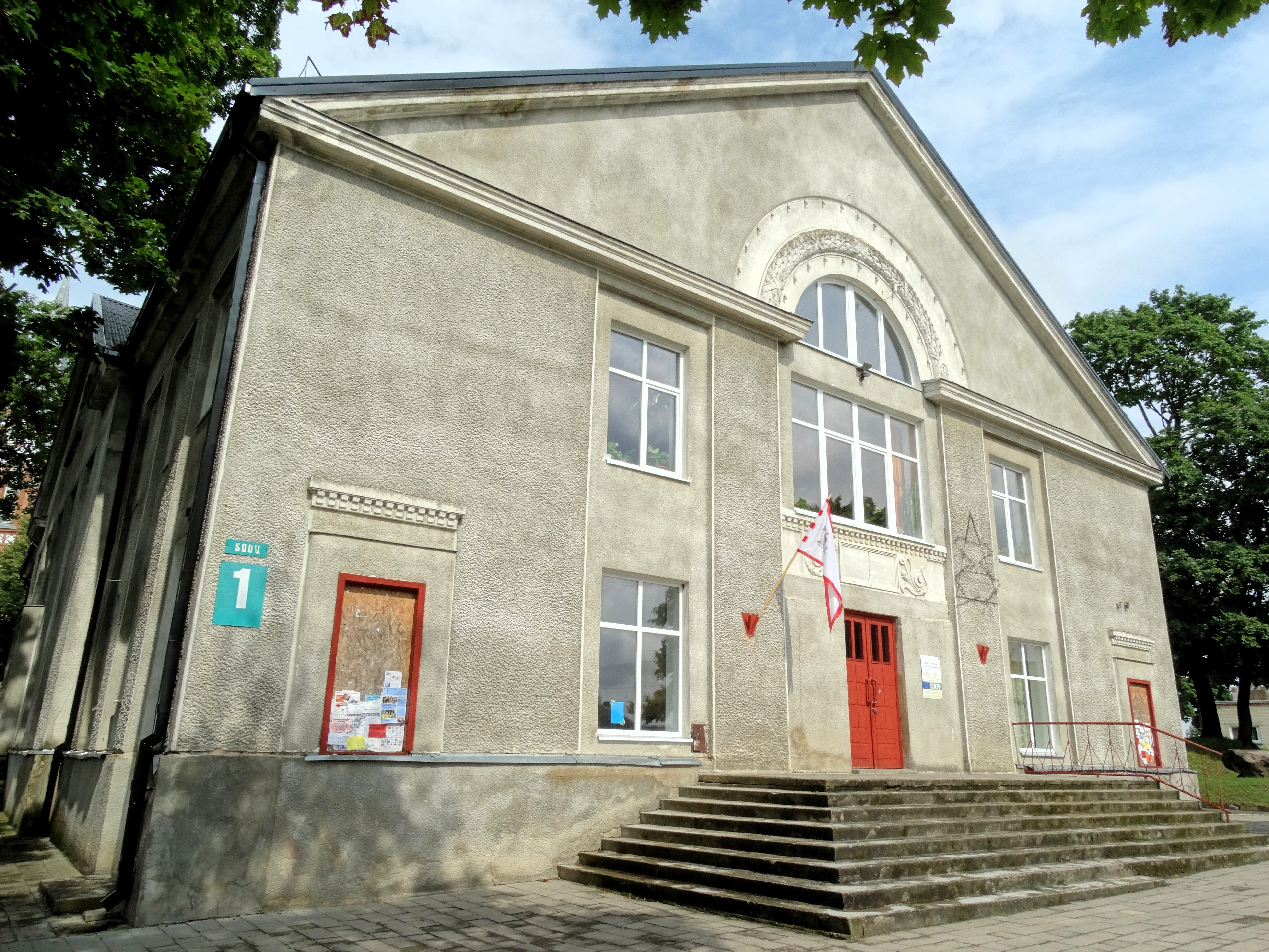 House of culture, Akmenė, Lithuania